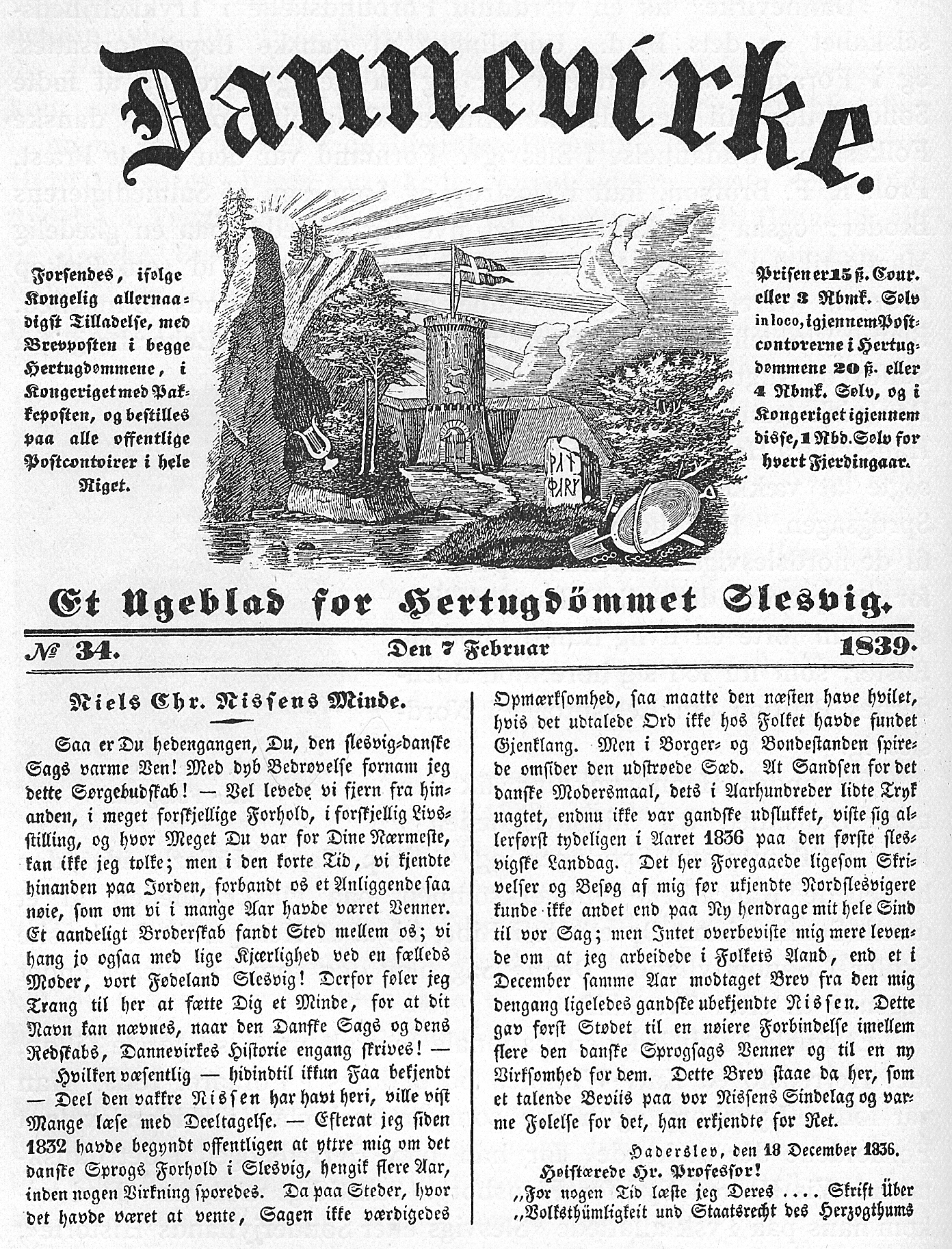 Dannevirke - Et Ugeblad for Hertugdømmet Slesvig. Nr. 34. 7. februar 1834.